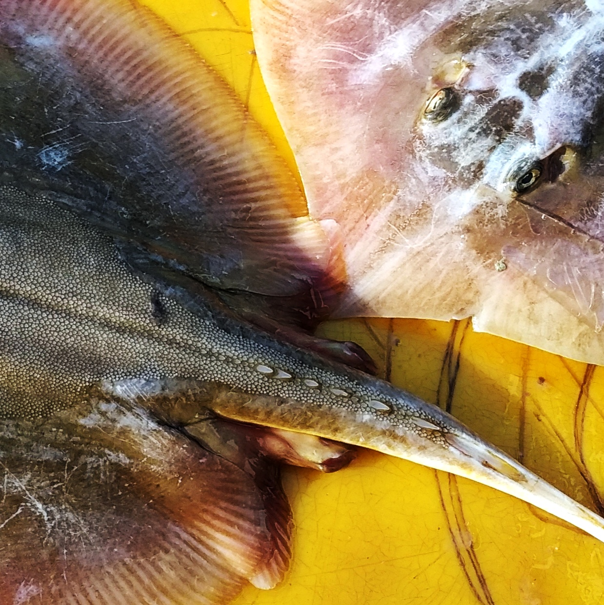 Dwarf whipray (Brevitrygon heterura); close up of dorsal surface of anterior part of tail, to show the elongated tail thorns. From Labuan fish-market, Pandeglang, Banten, Indonesia.